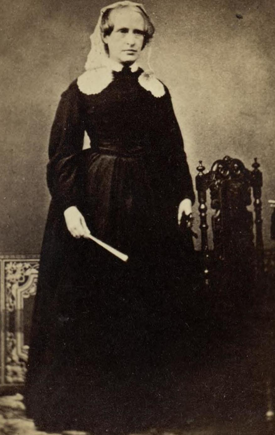 A portrait from the Welsh Portrait Collection at the National Library of Wales. Depicted person: Jane Williams – Welsh poet